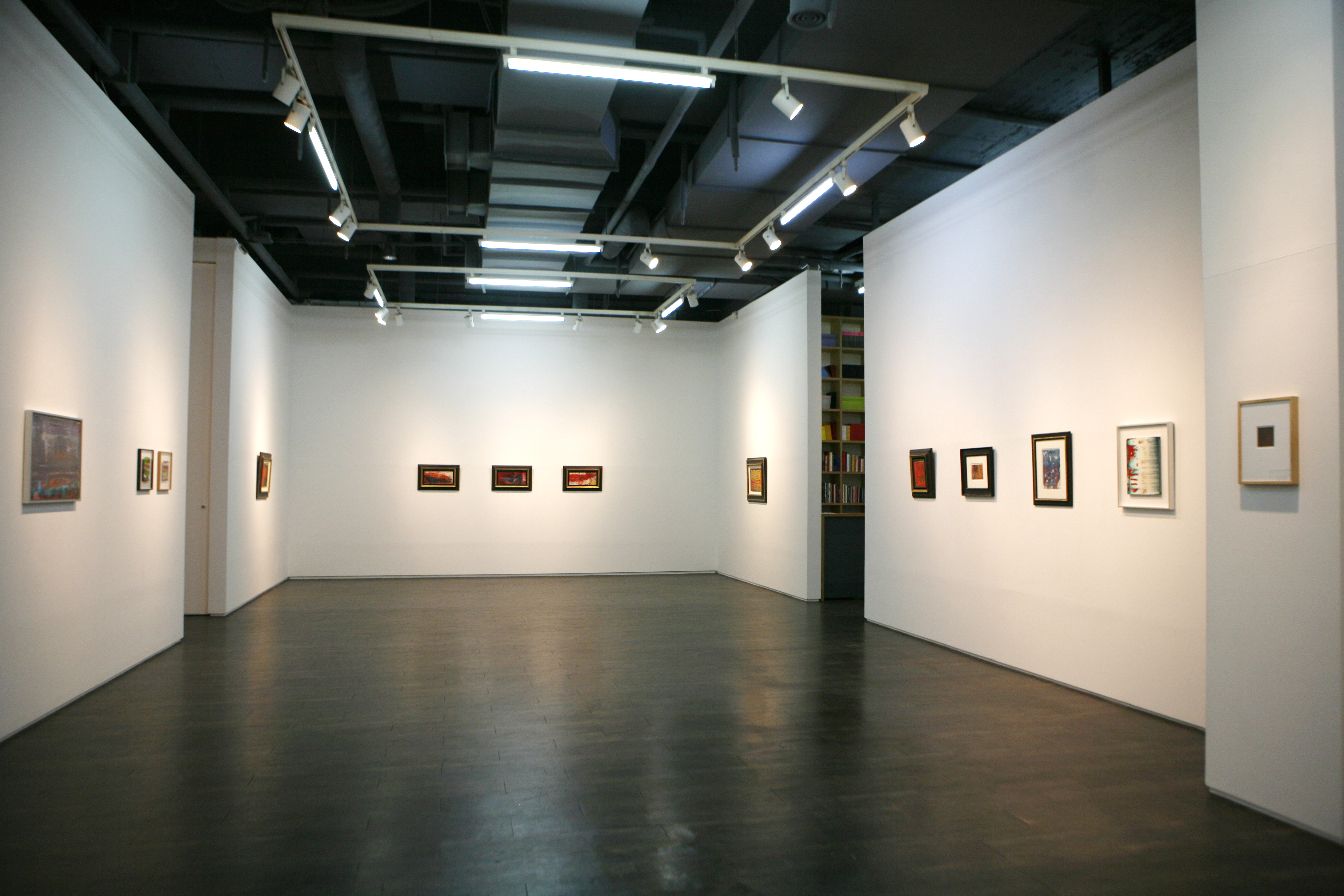 Exhibition view of an solo exhibition by Gerhard Richter, hold at Michael Schultz Gallery, Seoul.